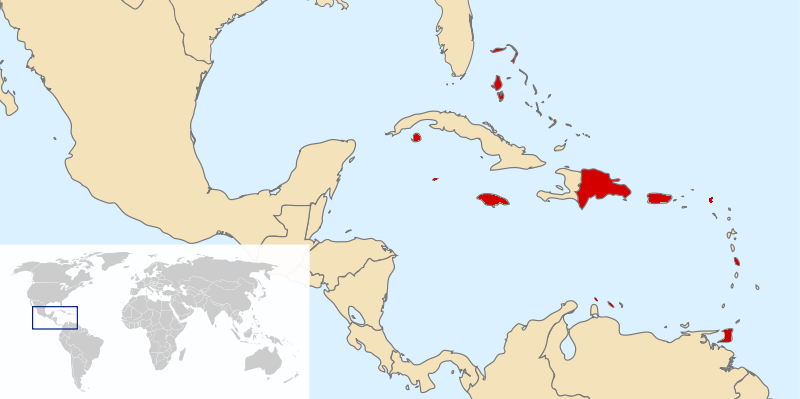 Map of countries in the Caribbean with Burger King locations